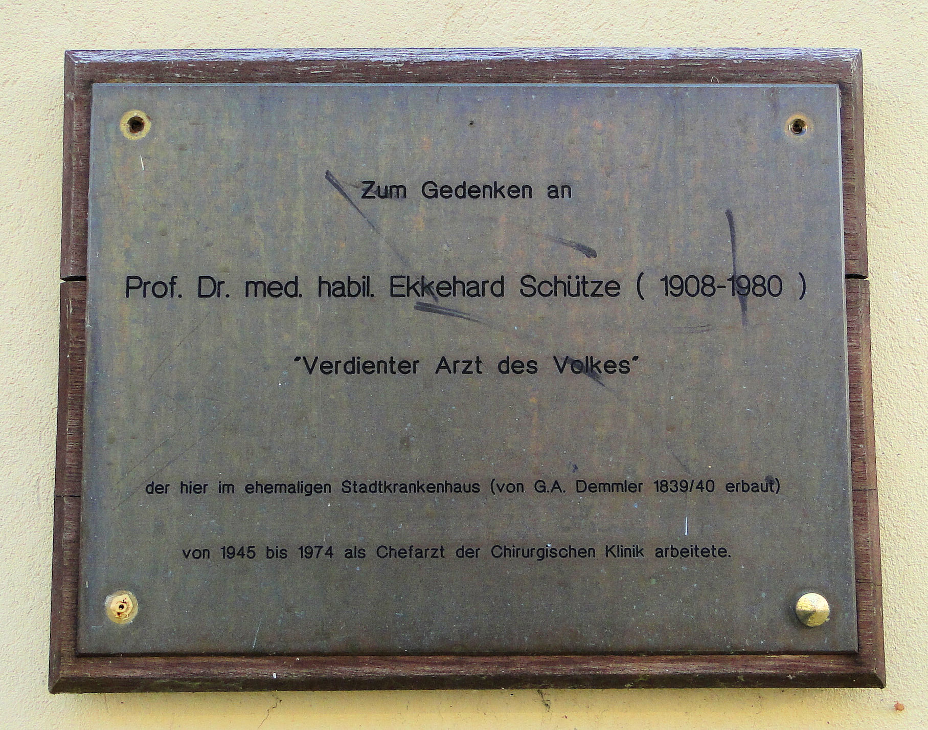 Memorial for Ekkehard Schütze at former district hospital in the street Werderstraße in Schwerin, Mecklenburg-Vorpommern, Germany